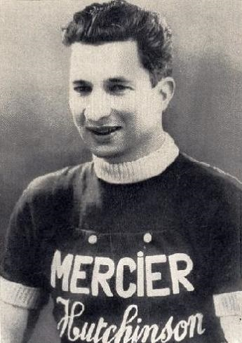 Henry(i) Aubry (1947; French amateurs world champion 1946 - and first after war II).